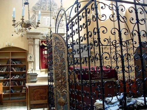 Rehmu Synagogue in Krakow in Poland